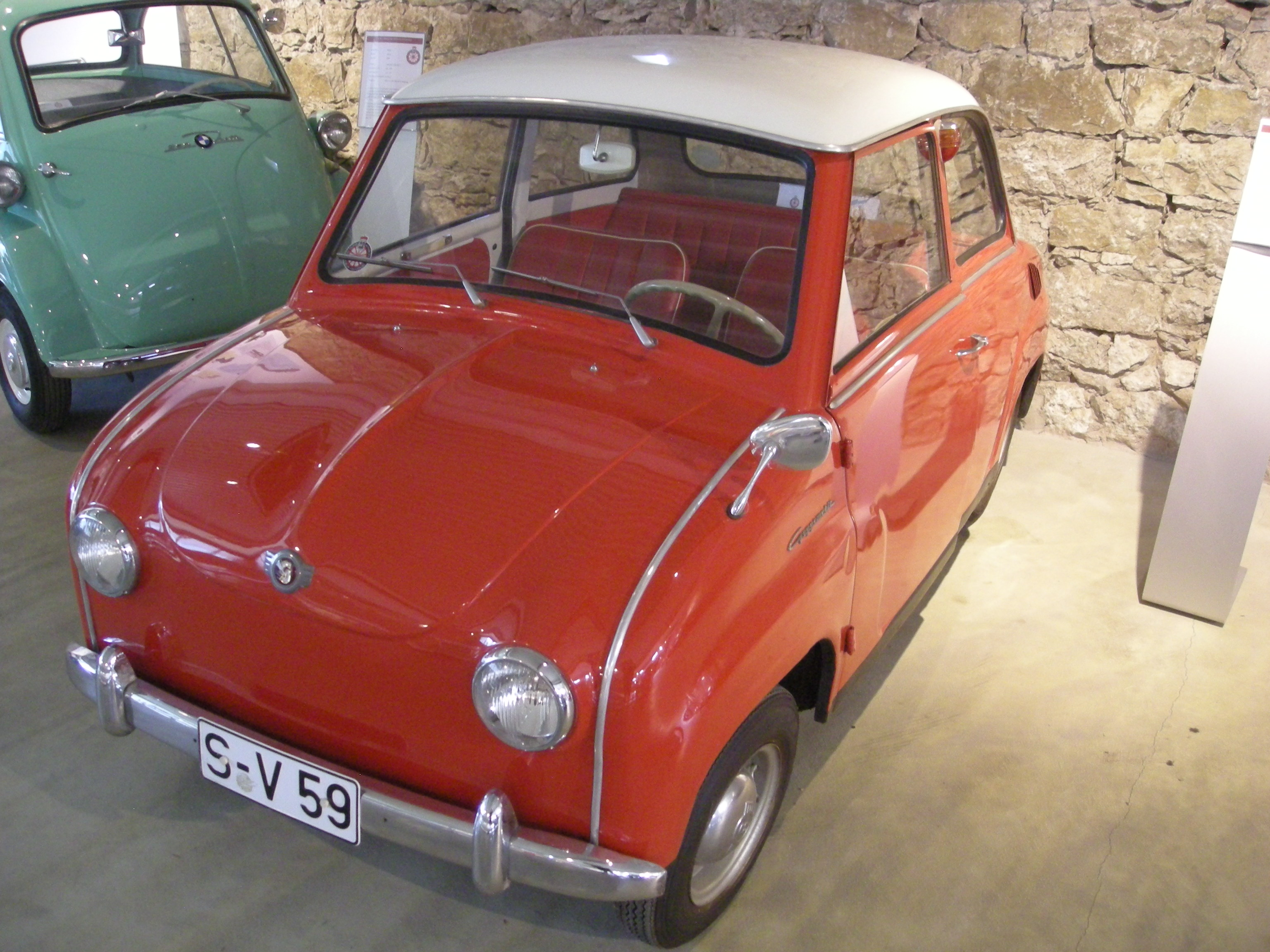 A 1968 Goggomobil T 250 inside the Deutsches Automuseum in Langenburg, Baden-Württemberg (Germany).